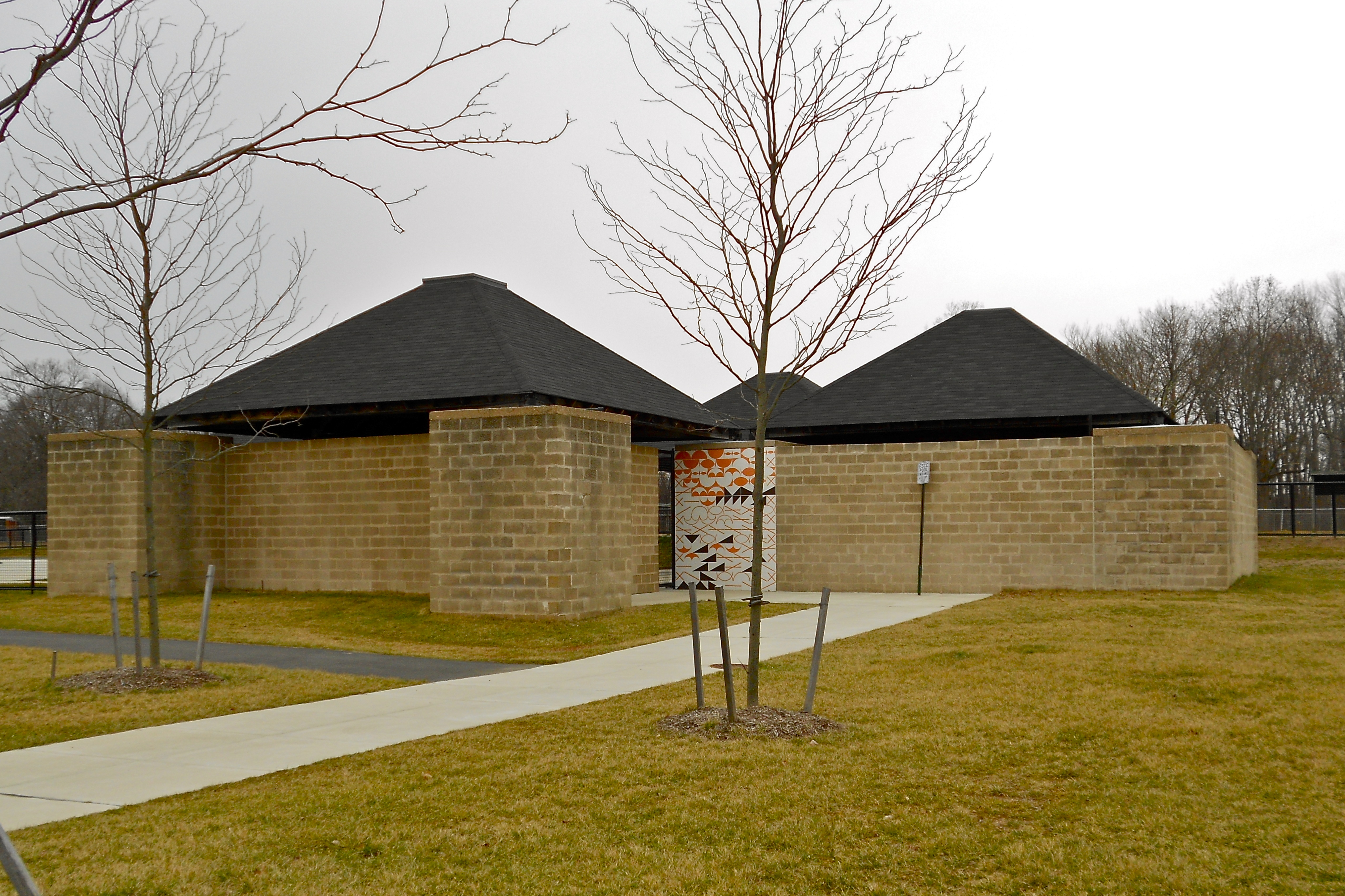 Trenton Jewish Community Center Bath House and Day Camp on the NRHP since February 23, 1984. Located at 999 Lower Ferry Rd., Ewing Township, Mercer County, New Jersey. Built 1951 as a poolhouse (for kids etc.) going to the swimming pool. Designed by Louis Kahn. General view from the outside showing 3 of the 4 blocks.